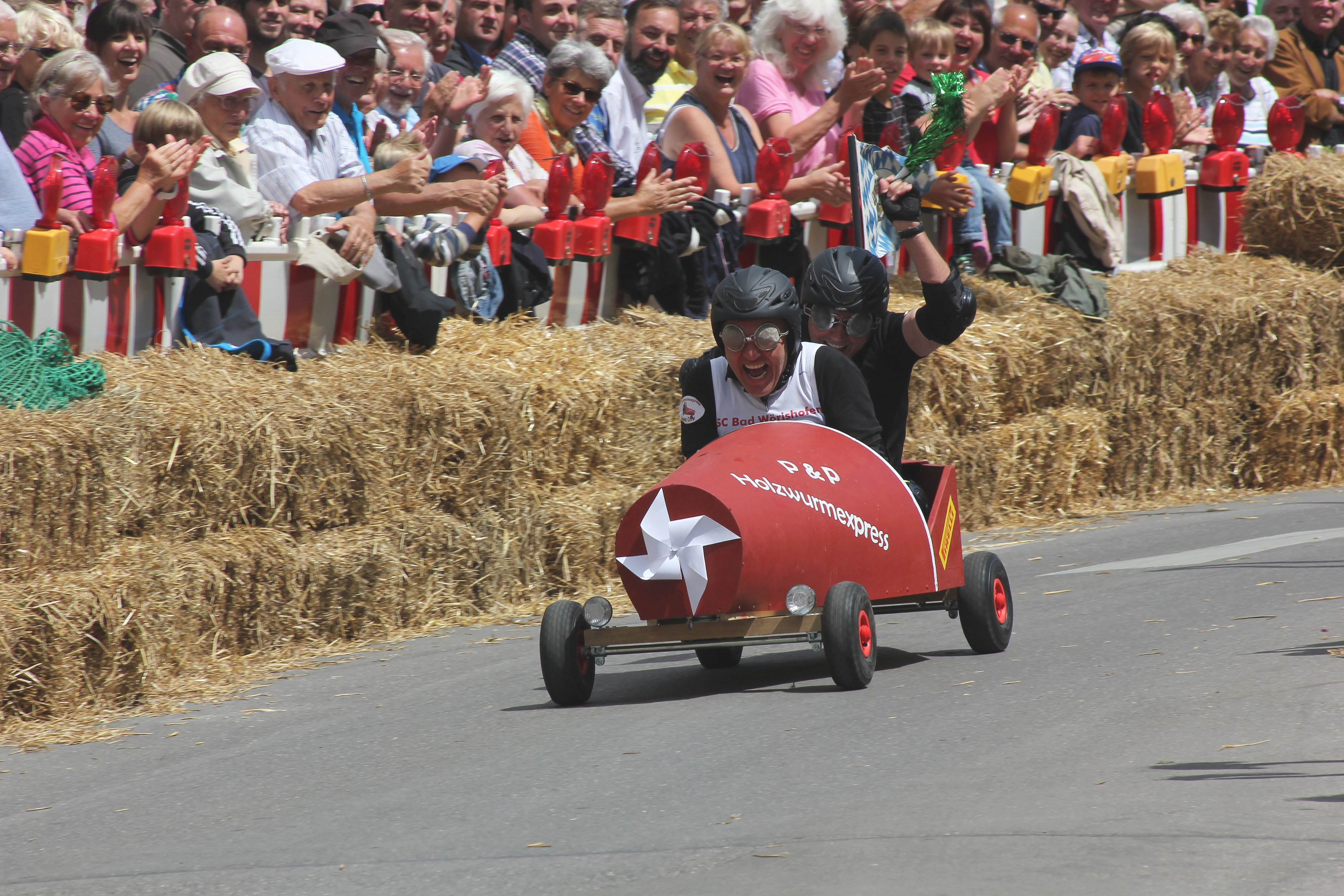 Adults in a twoseater at Soapbox race in Bad Wörishofen 2012